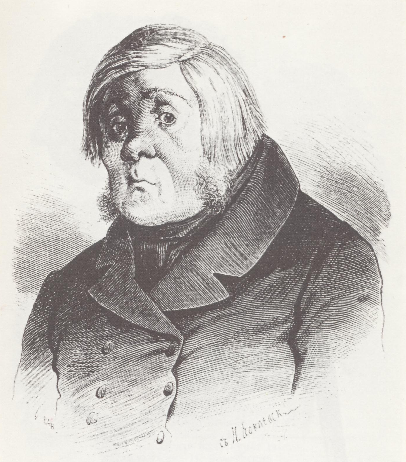 Illustration for Nikolai Gogol's Dead Souls